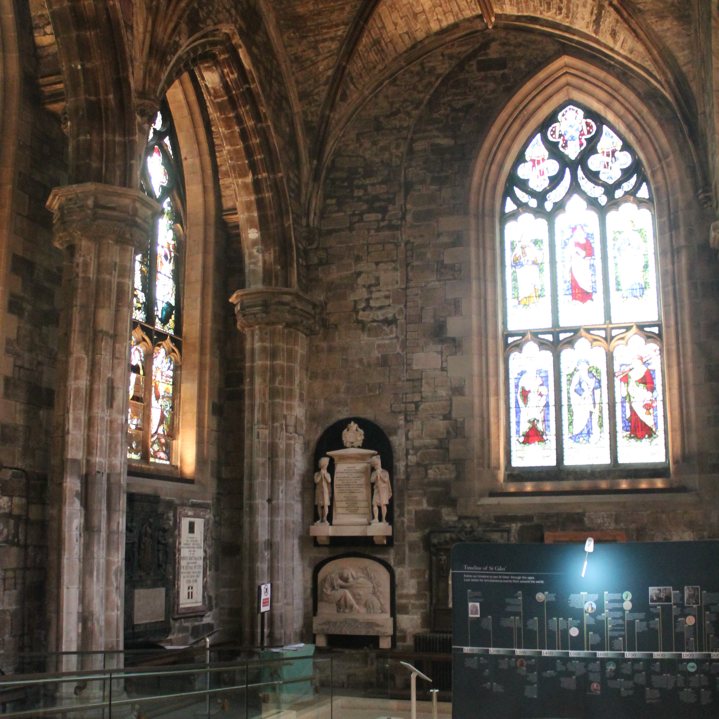 The west end of the inner south nave of St. Giles' Cathedral, Edinburgh, displays the effects of the Burn restoration of 1829-1833: on the left, a gap is visible between the piers and the screen wall inserted during the restoration after the two bays of the outer south nave aisle were demolished; on the right, the window is off centre and the outline of the original window is visible.